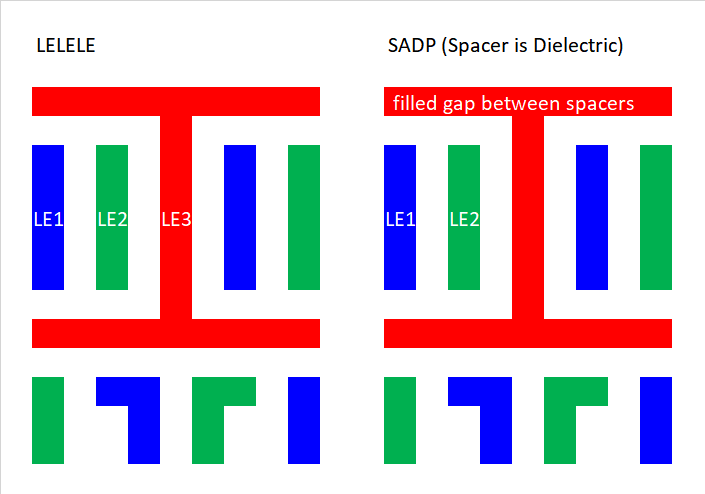 The same three-colored pattern may be patterned by conventional LELELE triple patterning or conventional LELE double patterning combined with spacer-is-dielectric (SID) SADP.